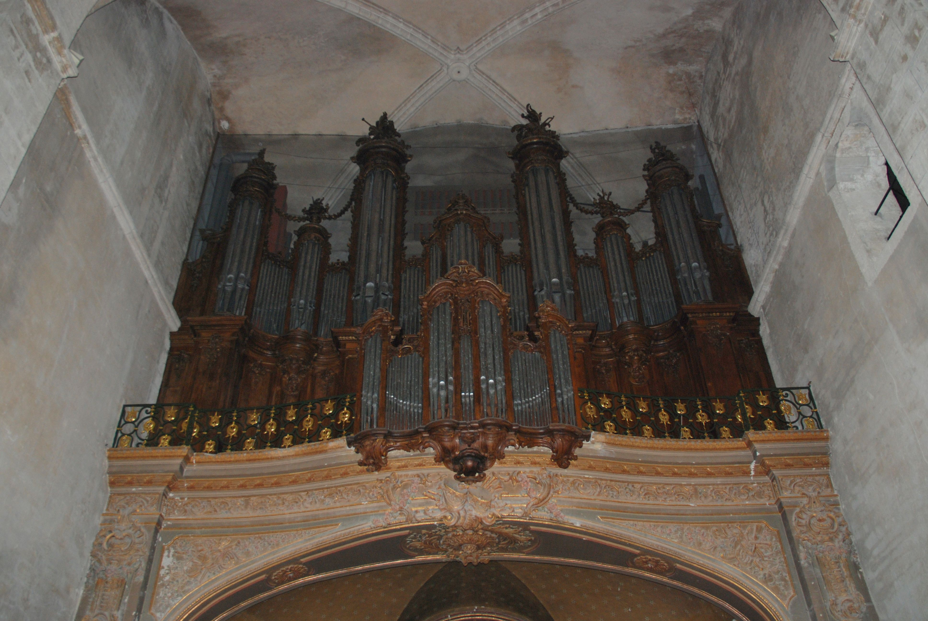 Organs of Verdun Cathedral, Meuse, France